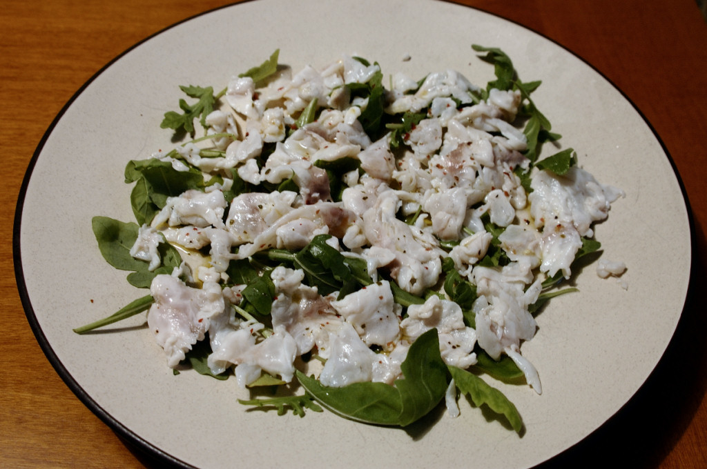 Carpaccio of Dicentrarchus labrax.